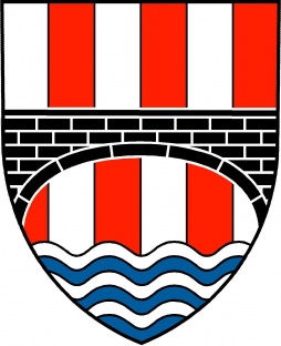 Valbroye's Official blazon